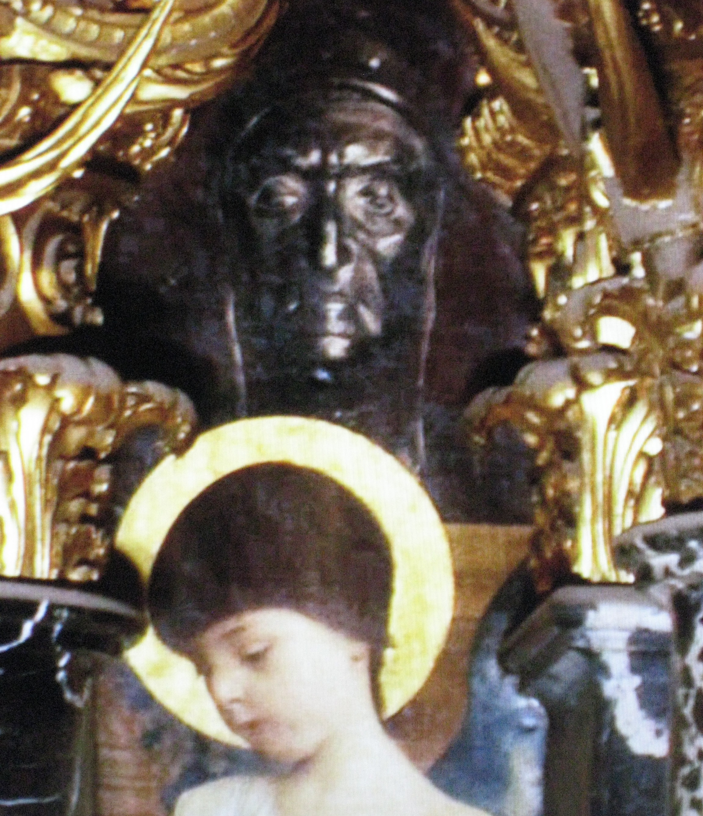 Gustav Klimt: Old Italian Art, detail of intercolumniation (Ceiling above the grand staircase, Kunsthistorisches Museum, Vienna)